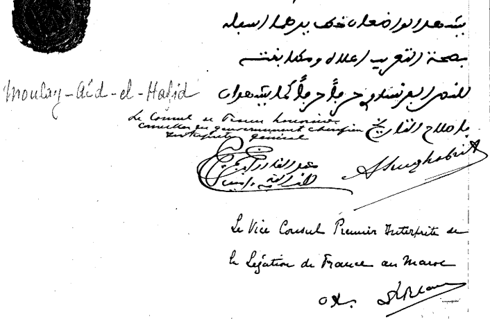 Portion of signatures page of the Treaty of Fes